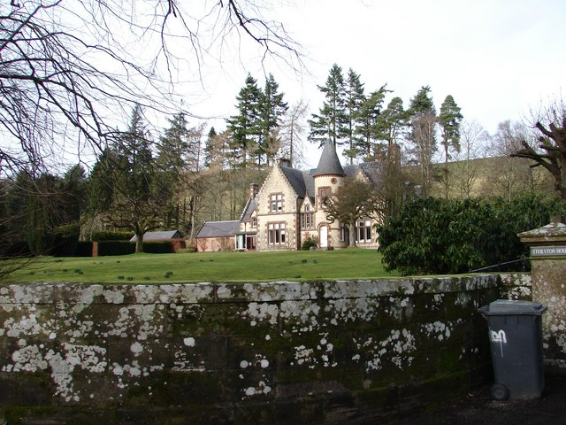 Steilston House The Victorian mansion of Steilston (1867) is situated in the valley of the Cairn and Cluden Waters. Notable for its circular tower, Steilston is built unusually of yellowish brick with red sandstone dressings.